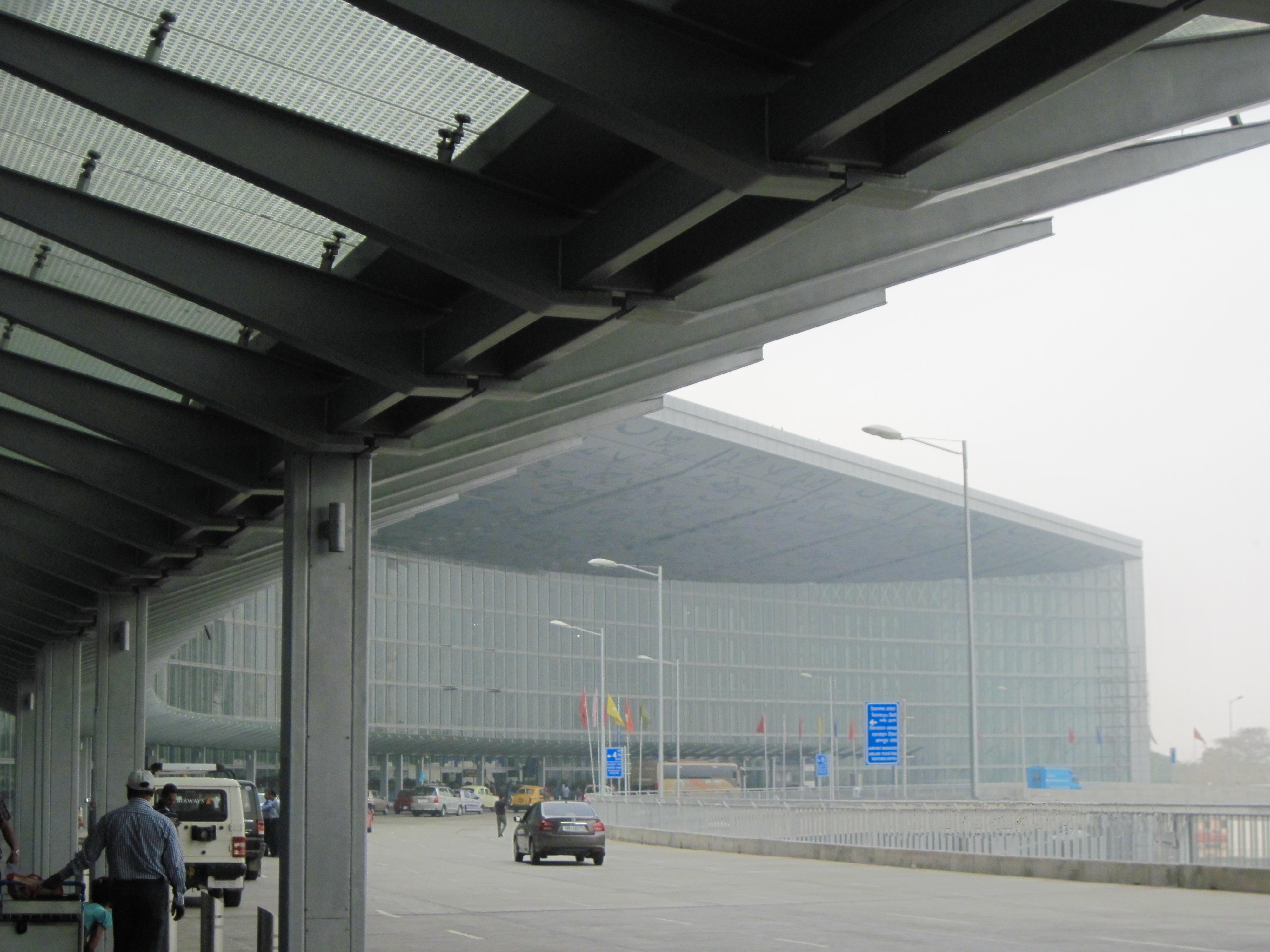 Kolkata Airport New Terminal outside view